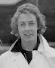 Valerie Sloper (later Young) at the British Empire and Commonwealth Games, Cardiff, 1958.